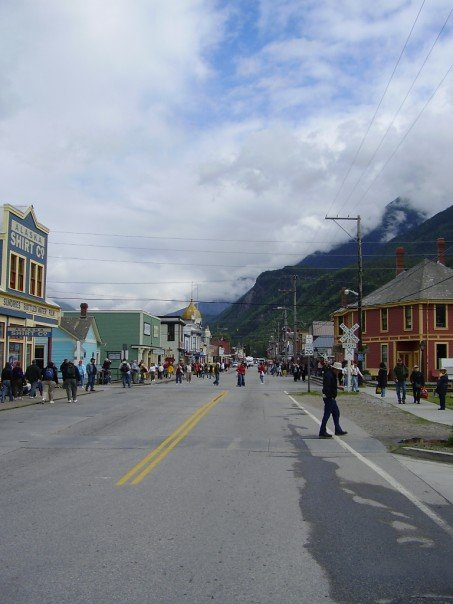 A view of Broadway Avenue in Skagway, showing the railway crossing and the reconstructed facades of buildings in the tourist area.